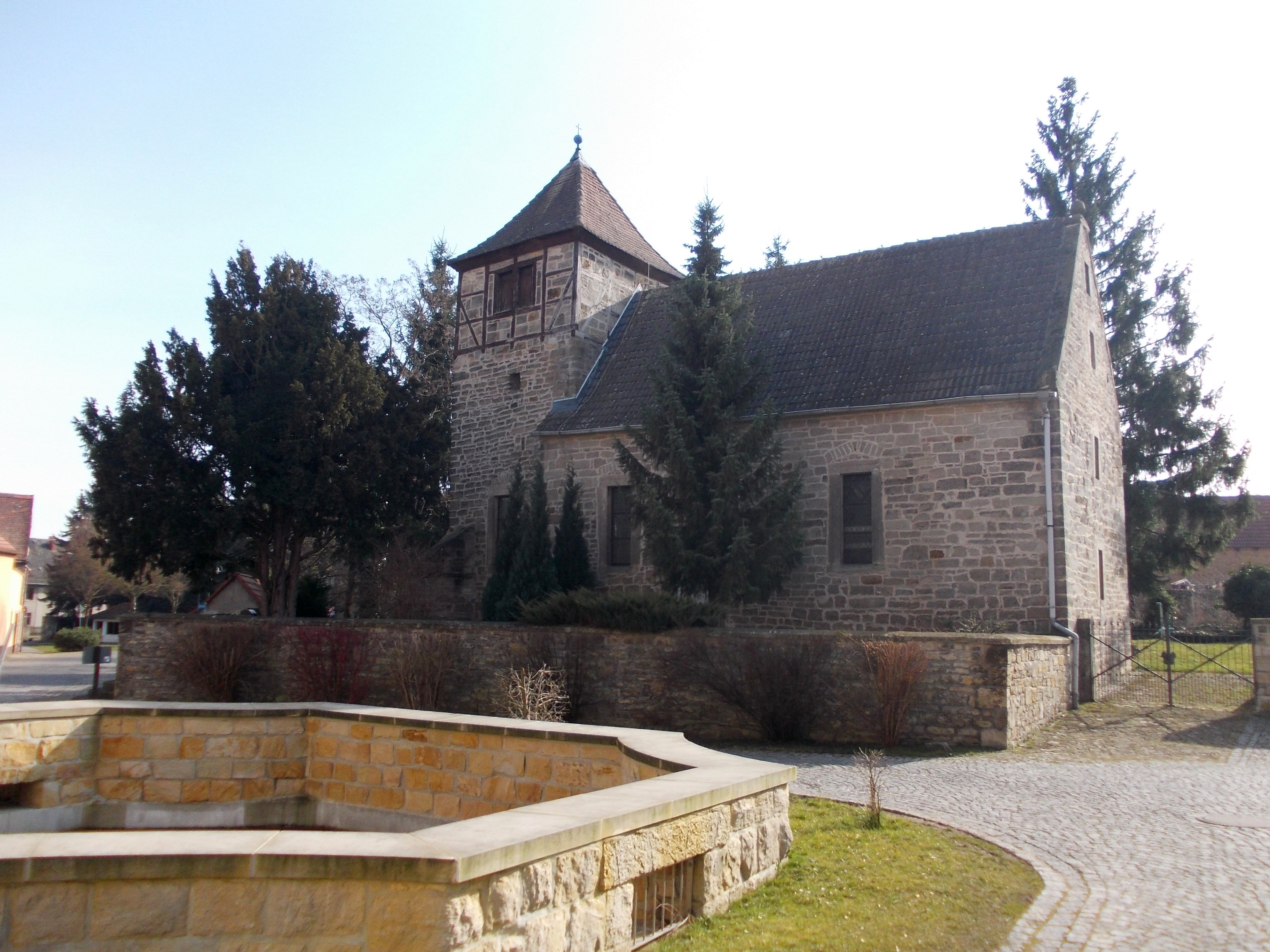 Our Good Shepherd Church in Golzen (Bad Bibra, district: Burgenlandkreis, Saxony-Anhalt)